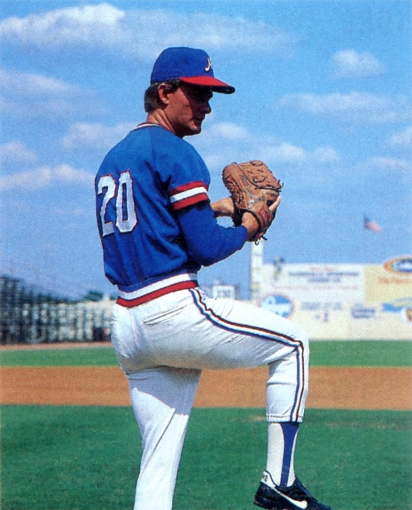 Pitcher Ed Olwine of the 1983 Nashville Sounds Minor League Baseball team of the Southern League